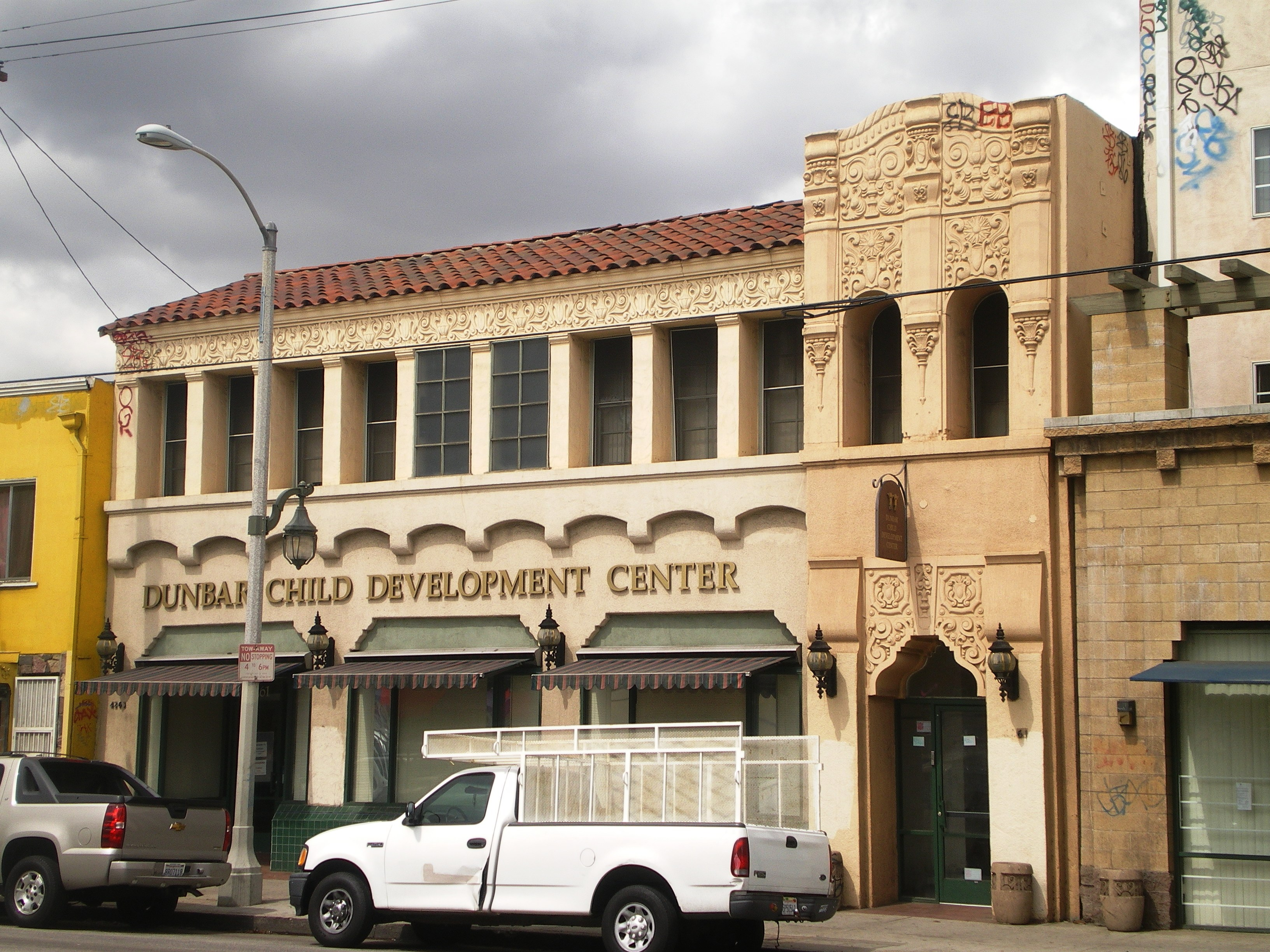 Golden State Mutual Life Insurance Building — 4261 South Central Avenue in Downtown Los Angeles, California.